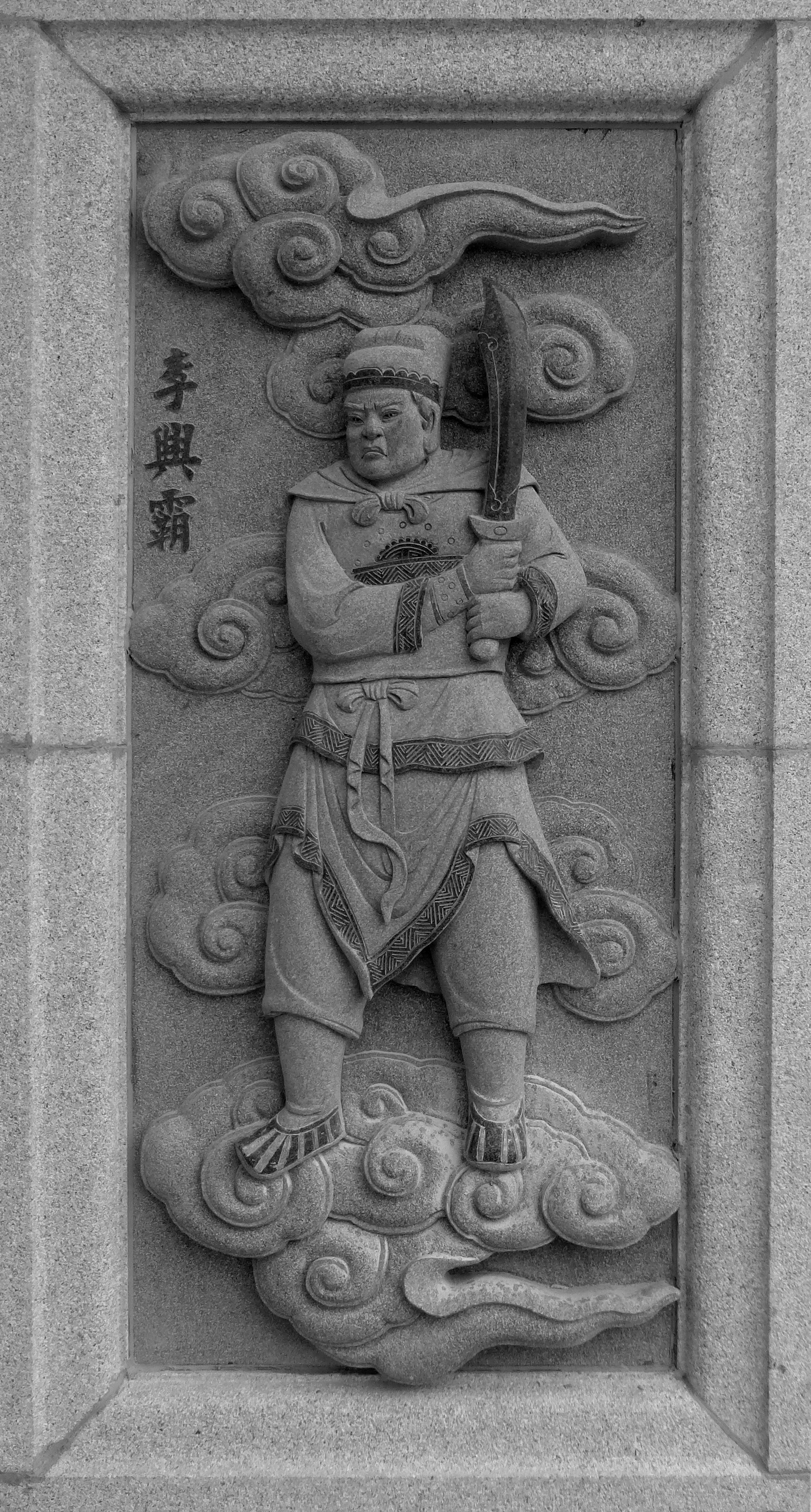 058 Li Xing Ba, Investiture of the Gods at Ping Sien Si, Pasir Panjang, Perak, Malaysia Photograph from the Ping Sien Si Temple in Perak, Malaysia taken by Anandajoti.